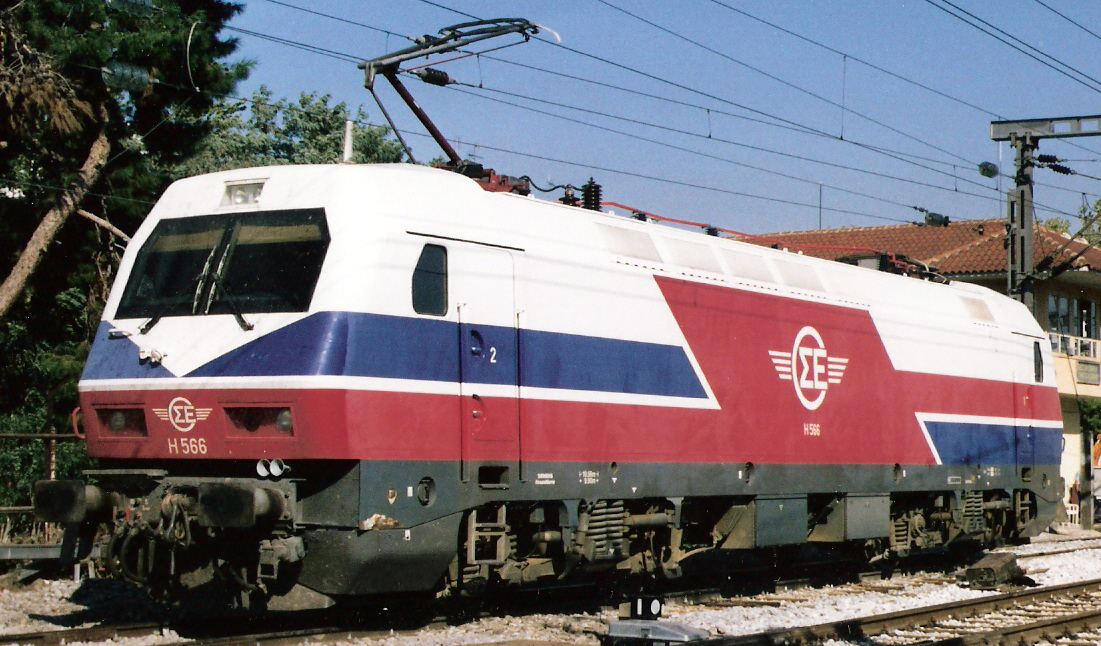 High speed and power, electric locomotive of the greek railways (OSE) "Hellasprinter", class H560, number 566 (today class 120), near Thessaloniki.